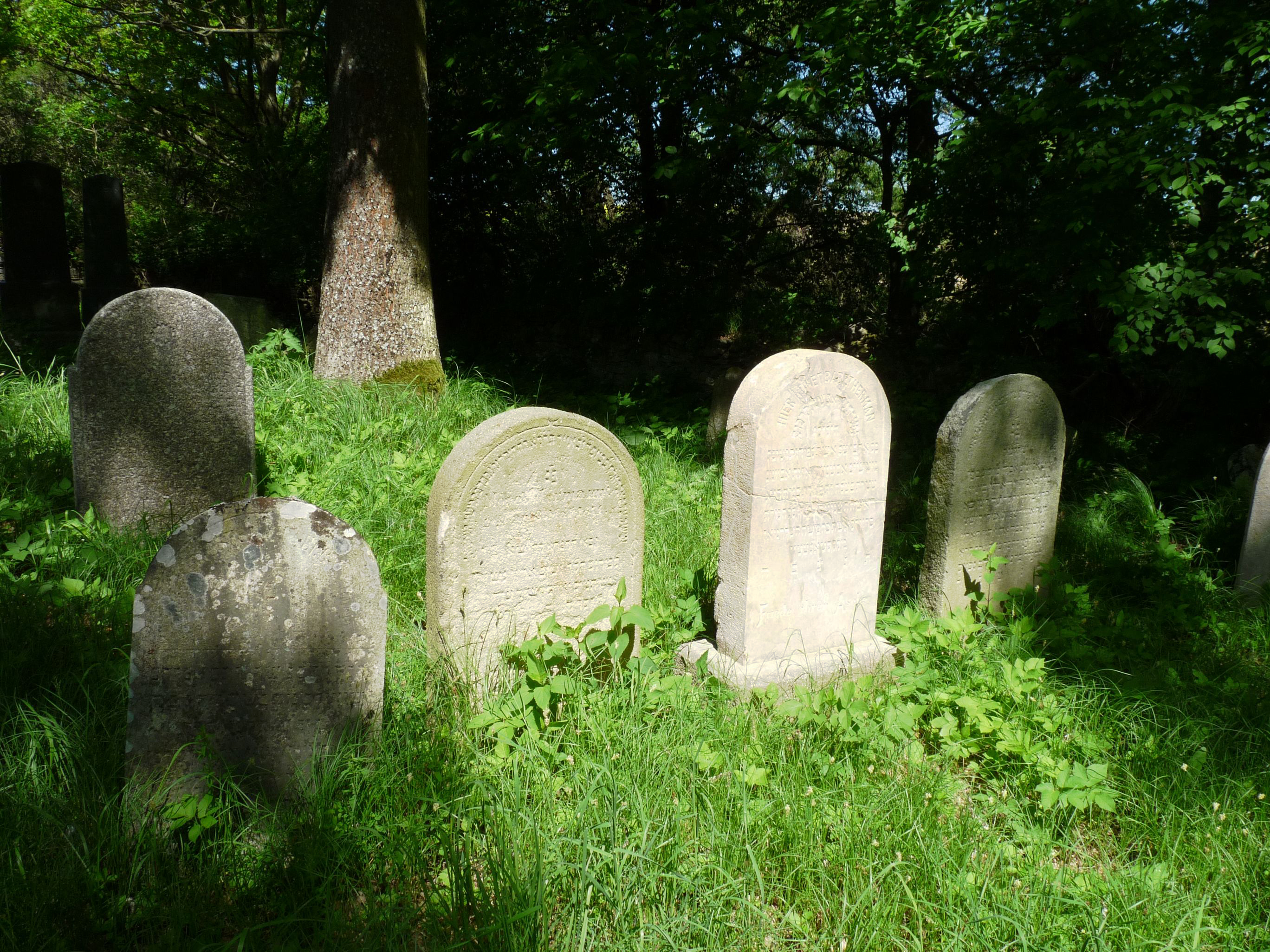 Gravestones in the Jewish cemetery by the town of Stádlec, Tábor District, South Bohemian Region, Czech Republic.